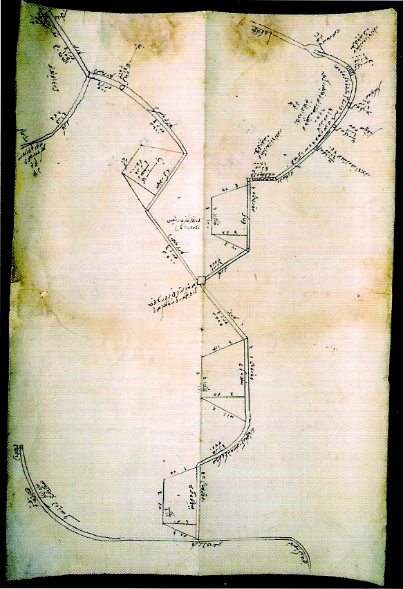 Sketchy_drawing: Kırkçeşme water distribution system, Istanbul, black ink on paper